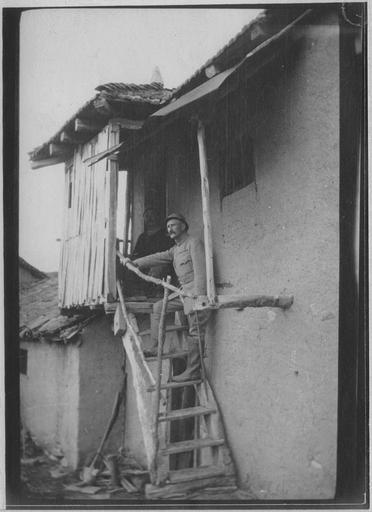 Antante in Klabuchishta or Poliplatano, Greece in 1917-1918